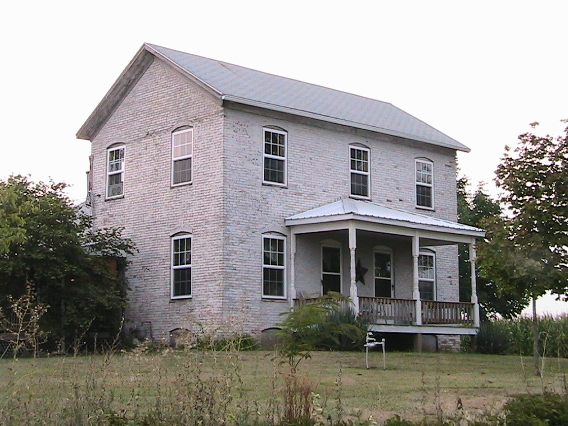 Harold Osborn (winner of gold medals in the decathlon and high jump at the 1924 Olympic games in Paris, France) grew up in this farmhouse in Butler Grove Township, 5 miles north of Hillsboro, IL.